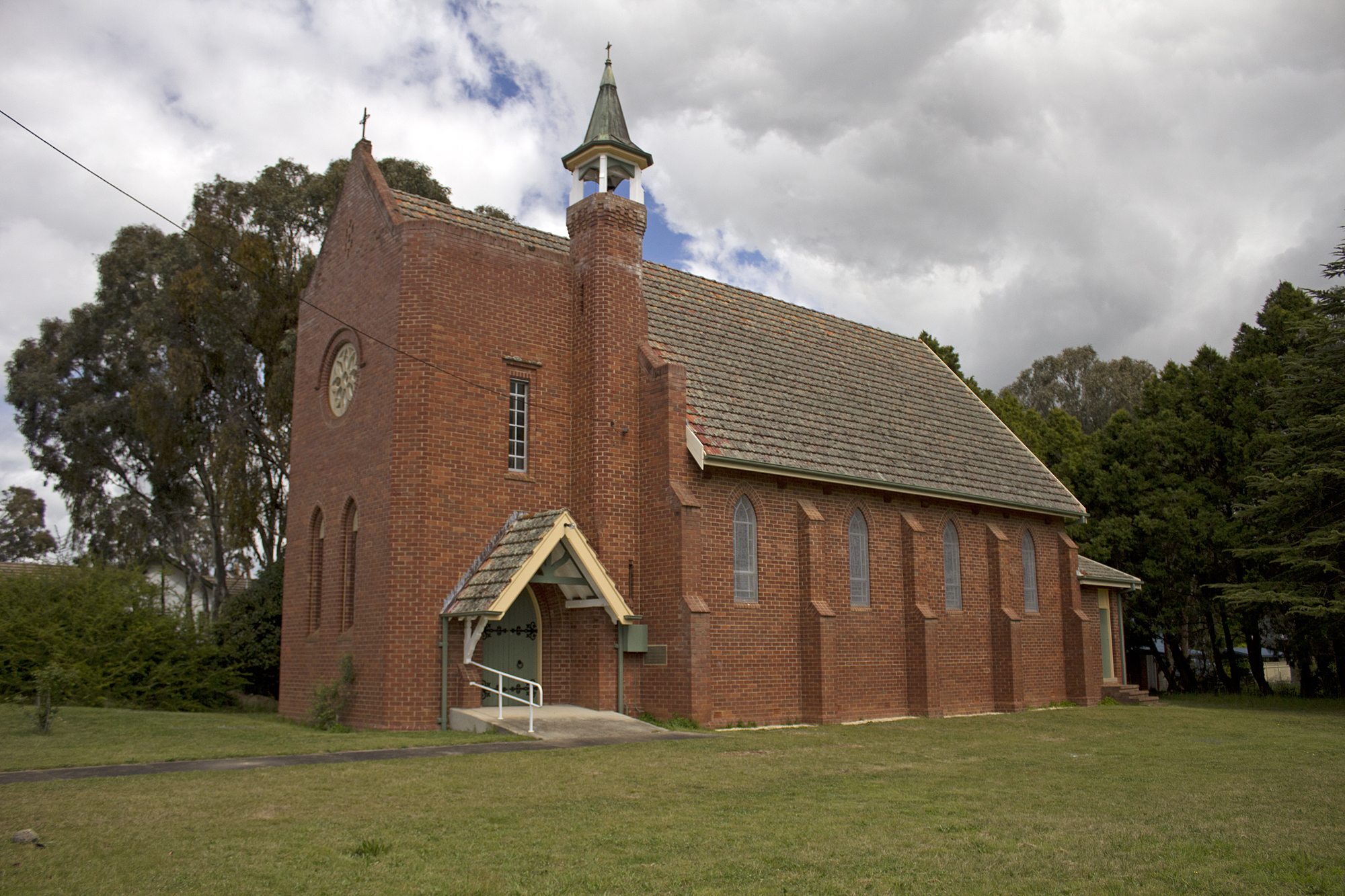 Saint Laurence O'Toole Catholic Church, although it is incorrectly referred to Saint Lawrences, in Mandurama, New South Wales.